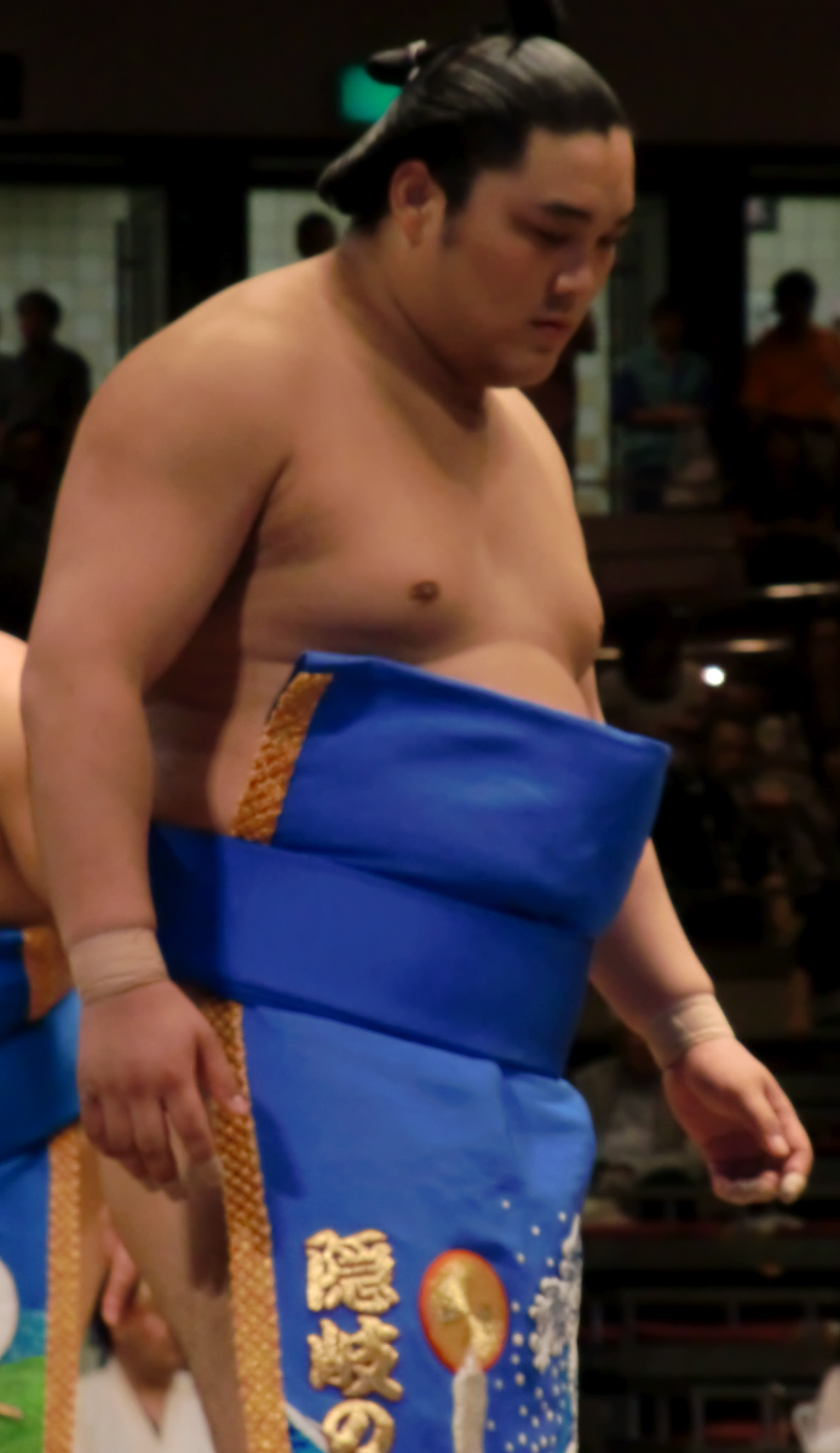 taken at the Sep 2009 tournament